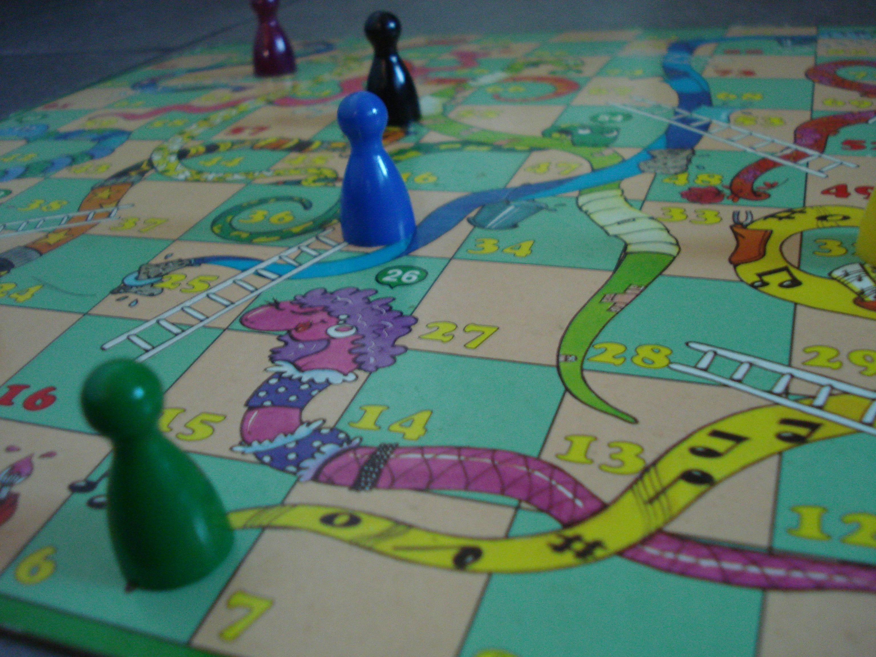 Snakes and ladders game